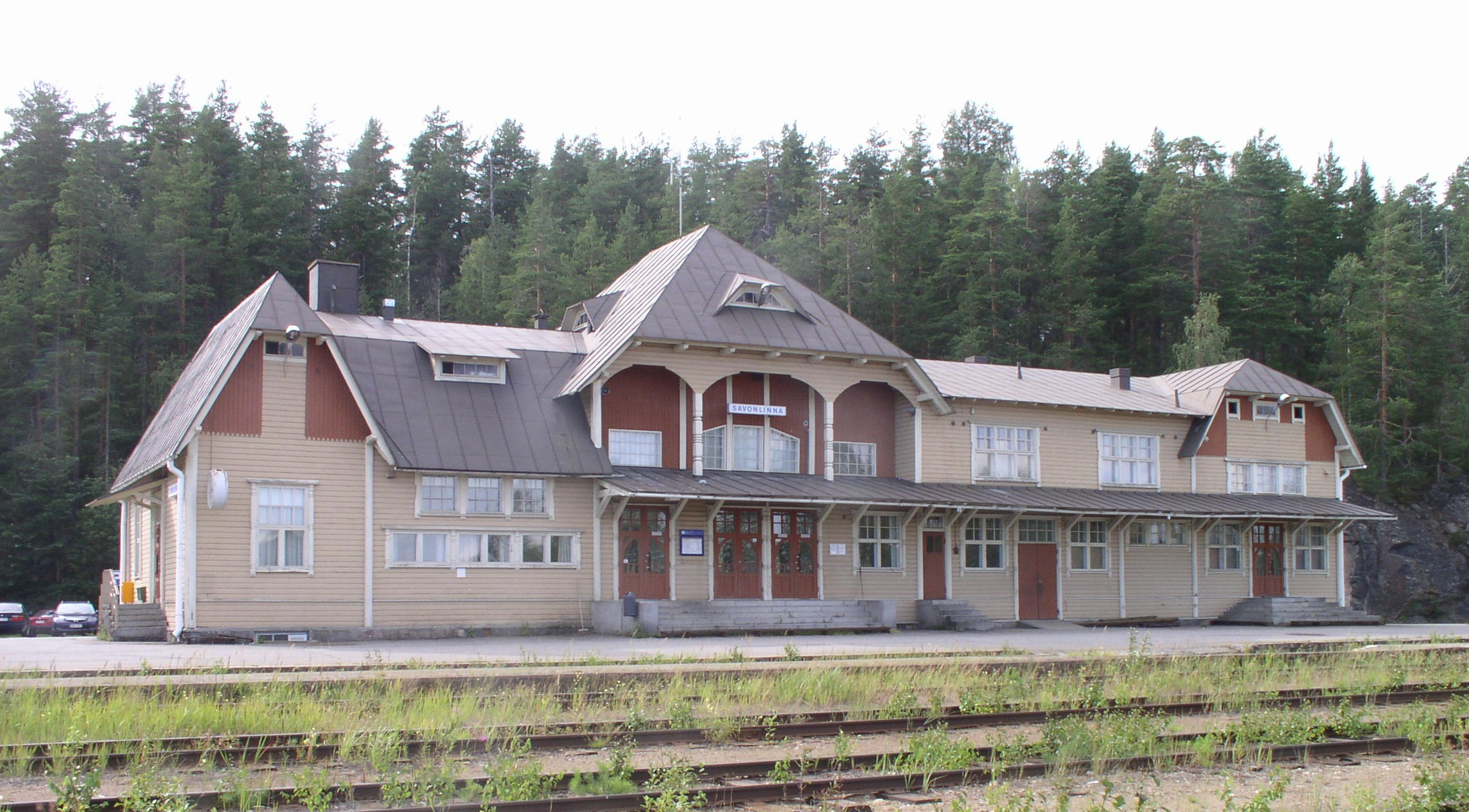 Savonlinna railway station, Savonlinna, Finland